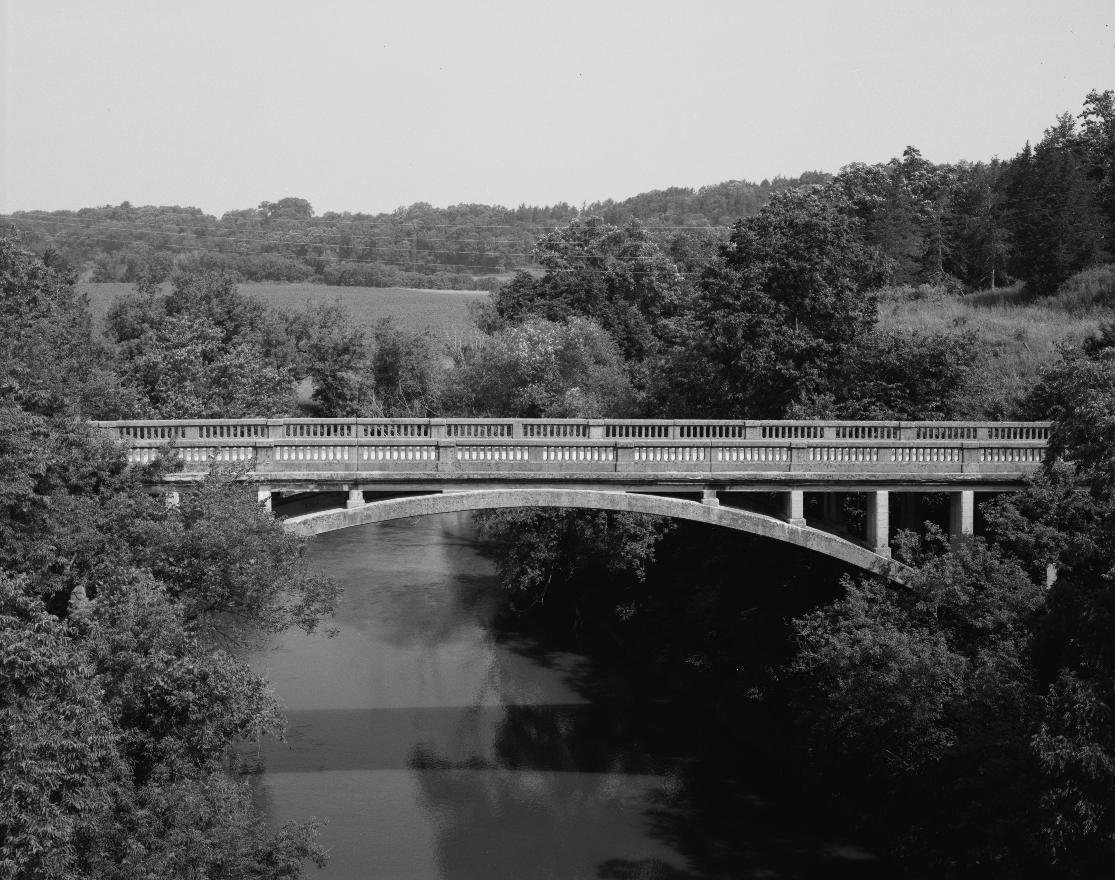 Southern (downsteam) side of the Elkader Keystone Bridge, which carries a county road over the Volga River near Mederville in Cox Creek Township, Clayton County, Iowa, United States. Built in 1918, it is listed on the National Register of Historic Places.